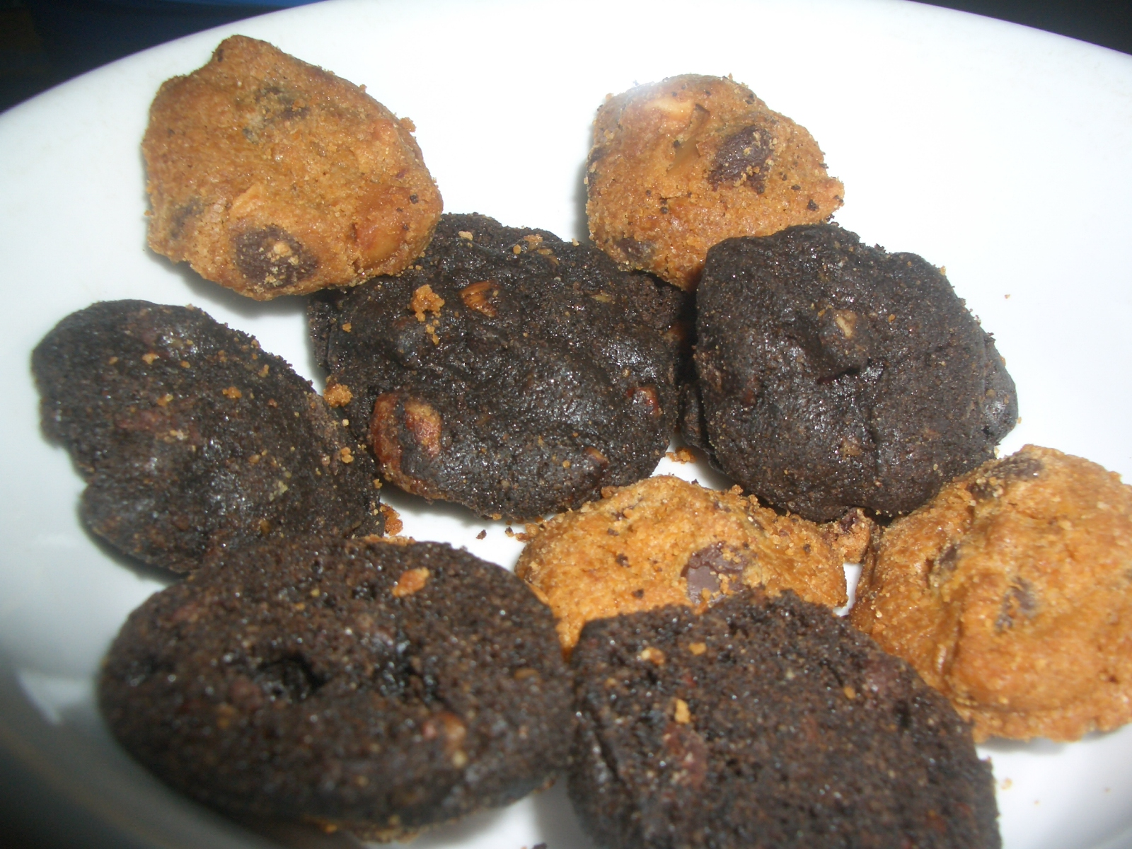 Photograph of some cookies